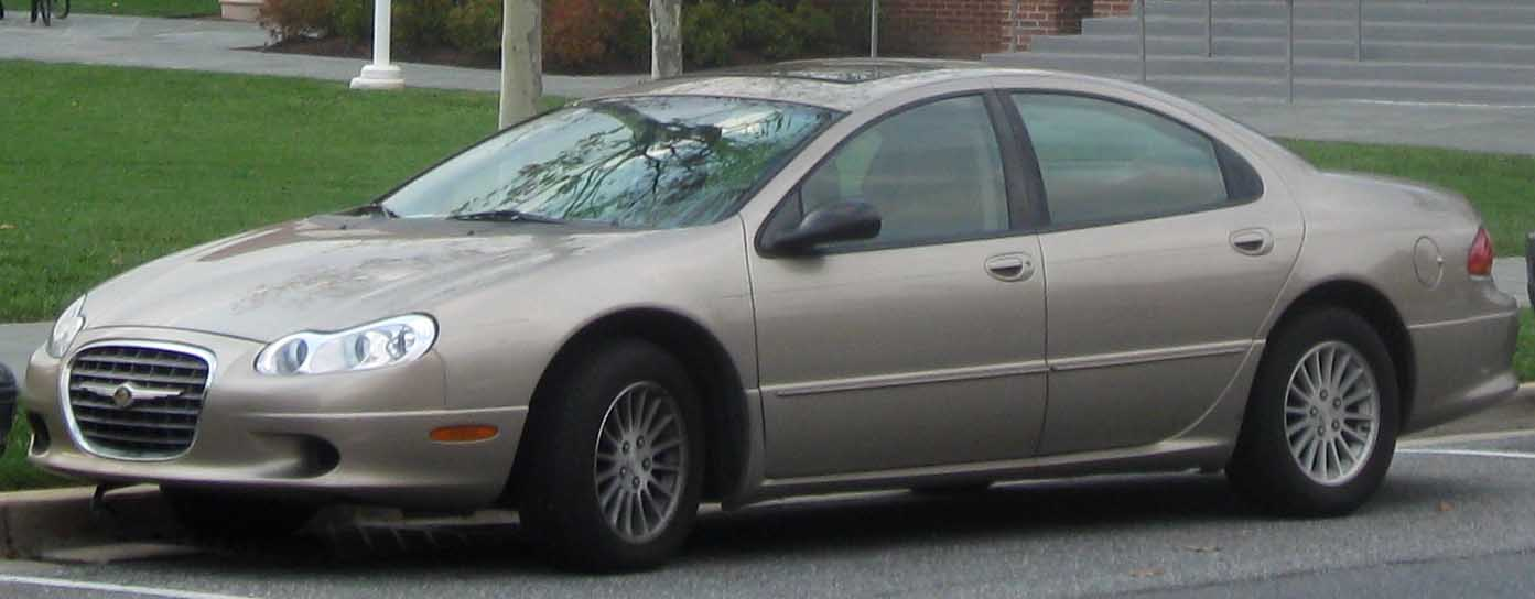 2002-2004 Chrysler Concorde photographed in College Park, Maryland, USA.